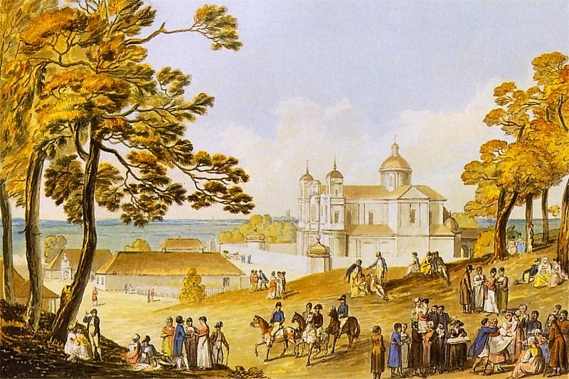 Painting by Józef Peszka (1767 - 1831) depicting St. Peter and St. Paul's Church in Vilnius